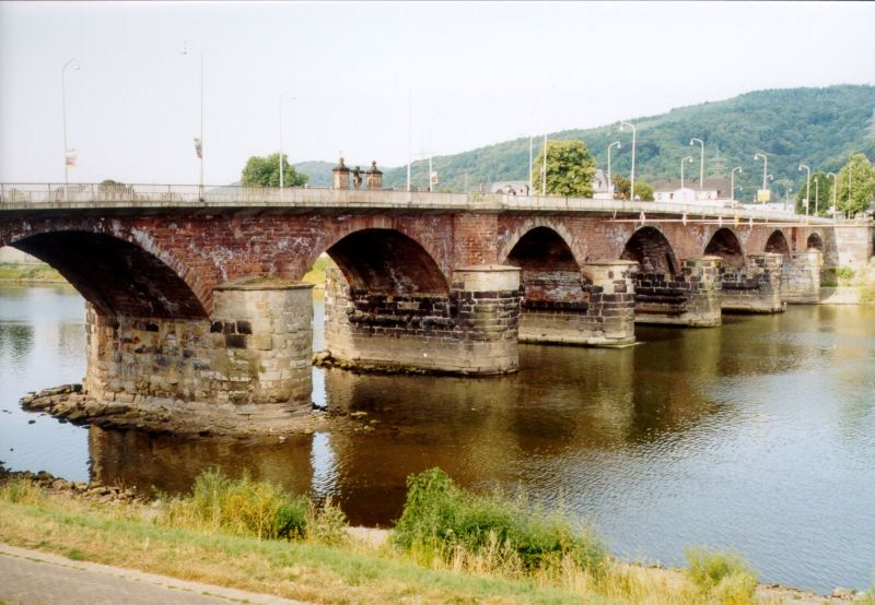 Römerbrücke in Trier, Germany